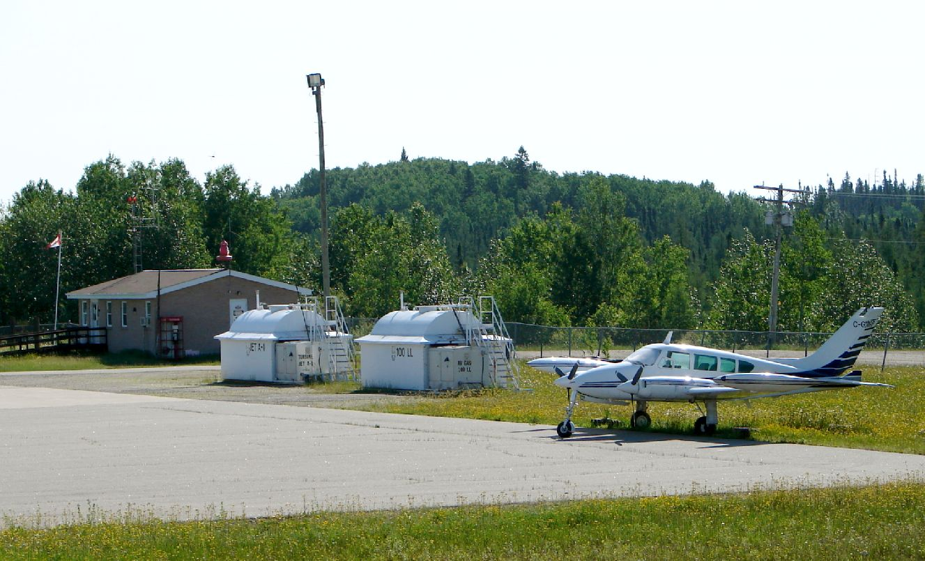 Hornepayne Airport, Ontario, Canada